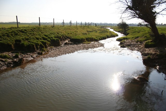 River Waring Looking South near Low Toynton